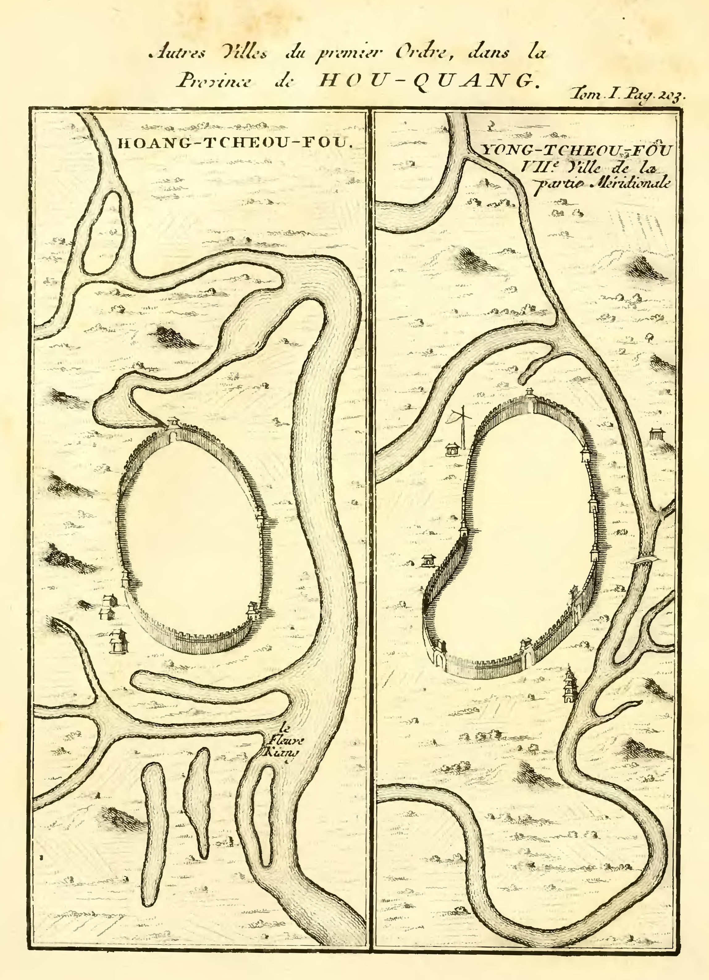 Maps of Huangzhoufu (now Huangzhou District in Huanggang, Hubei) and Yongzhoufu (now in Hunan) in Huguang from the Dutch edition of Du Halde's Description of China, Vol. I, p. 203.